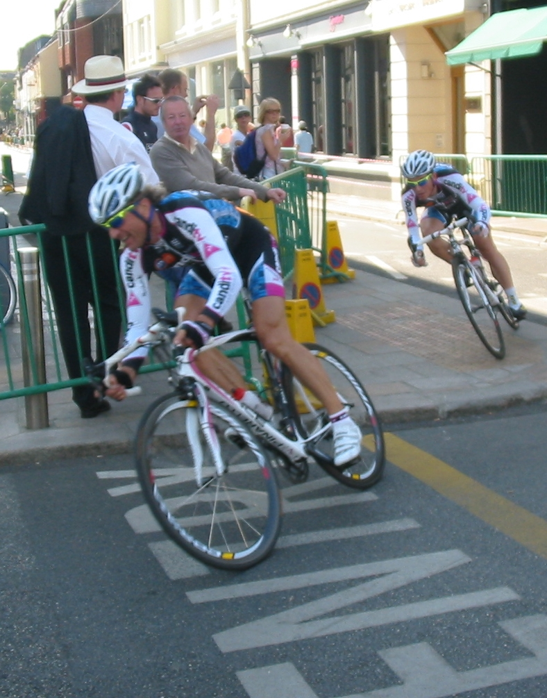 Jersey Town Criterium bicycle races, Saint Helier, Jersey, 24 May 2009